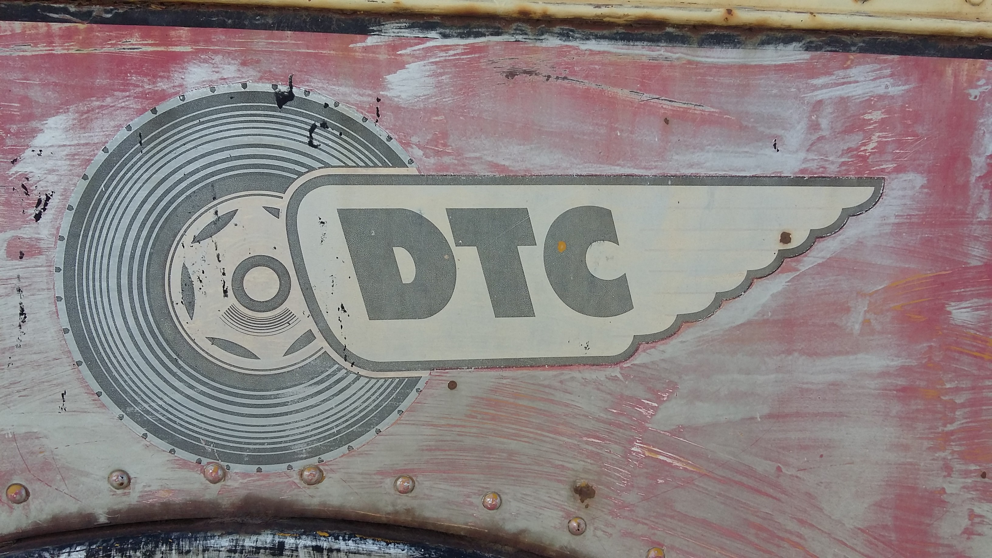 Denver Tramway Corporation Electric Trolley Bus No. 553 at the Colorado Springs & Interurban Railway museum